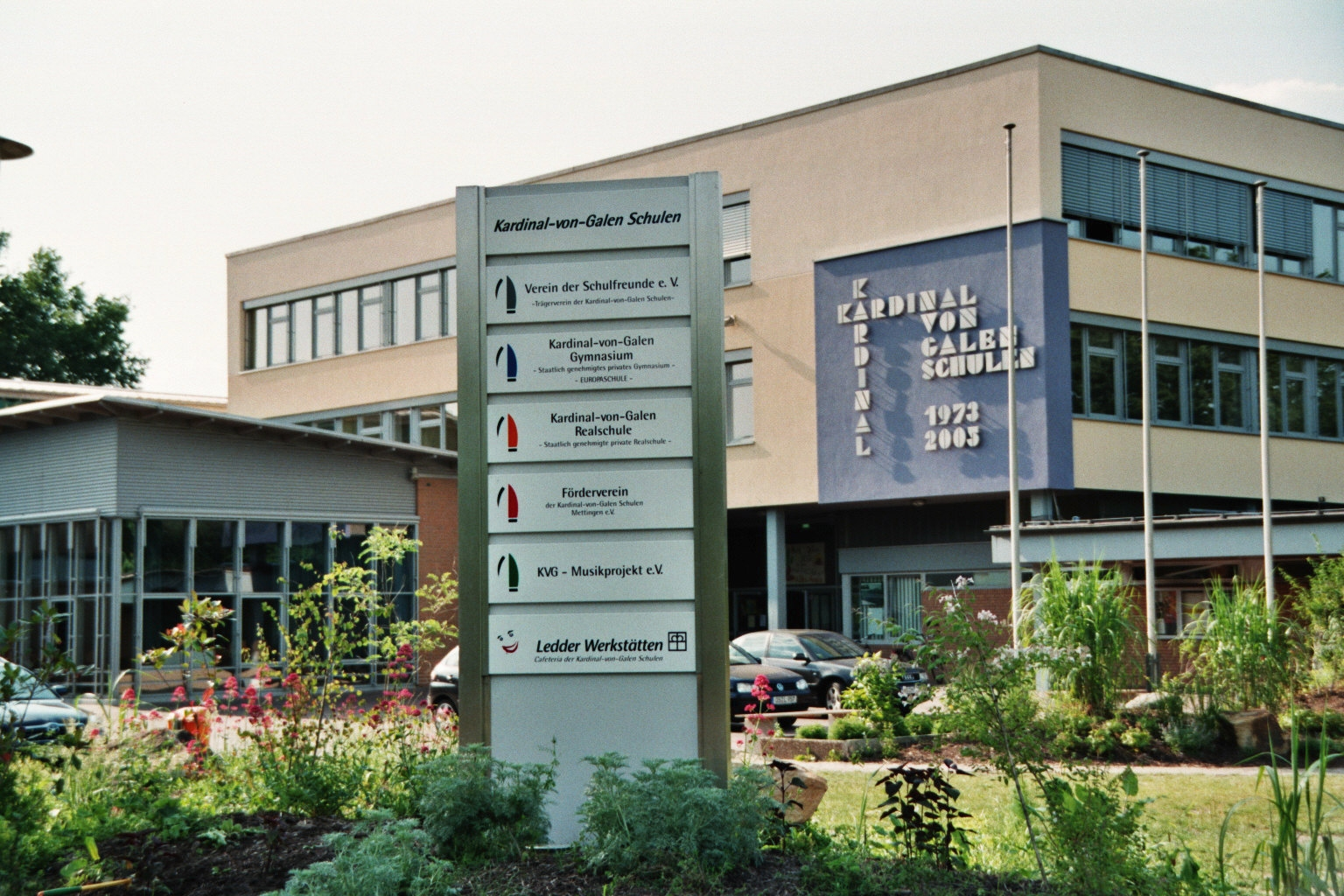 Kardinal von Galen Schools in Mettingen, Kreis Steinfurt, North Rhine-Westphalia, Germany.